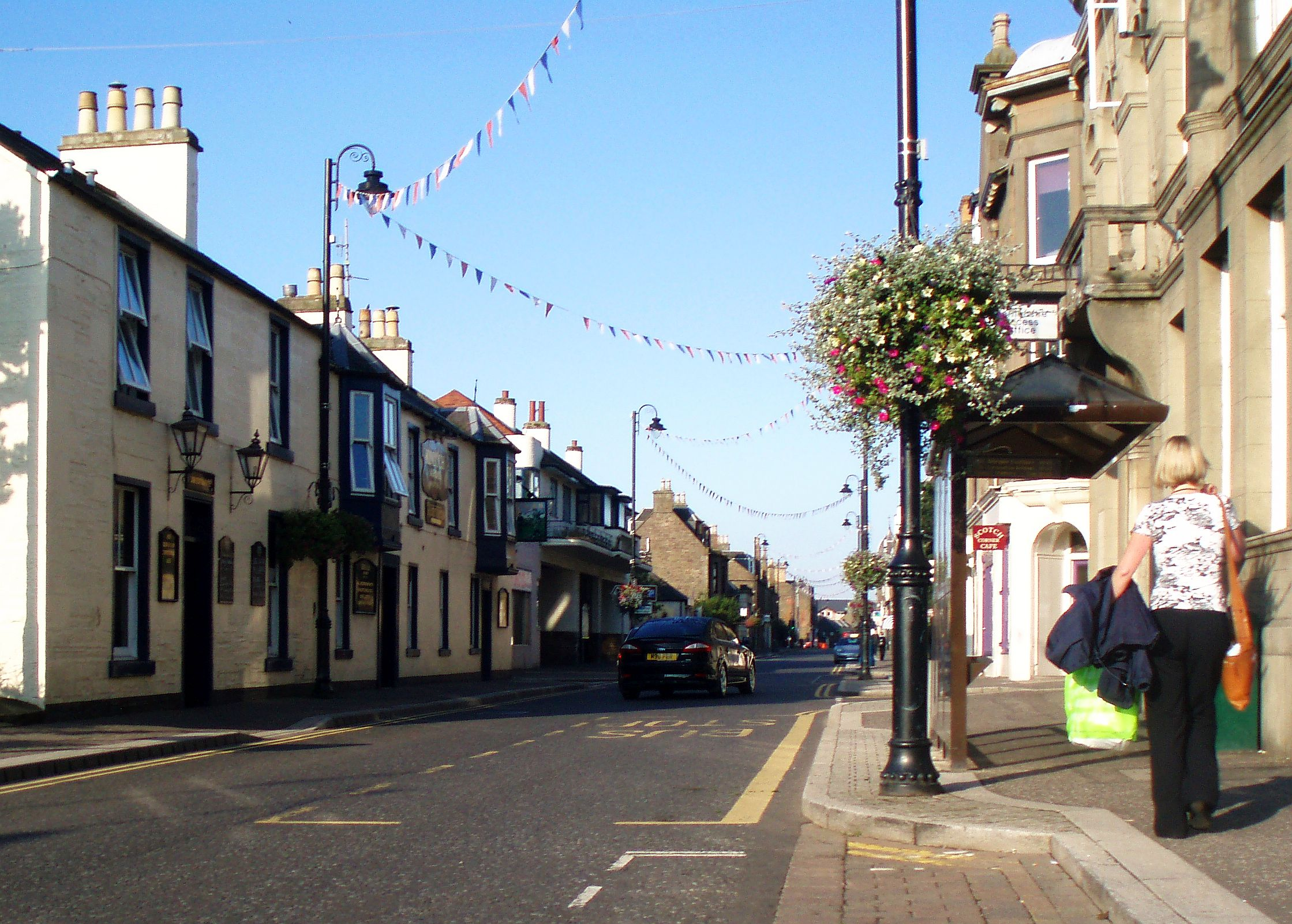 Carnoustie High Street, looking West towards the Cross.